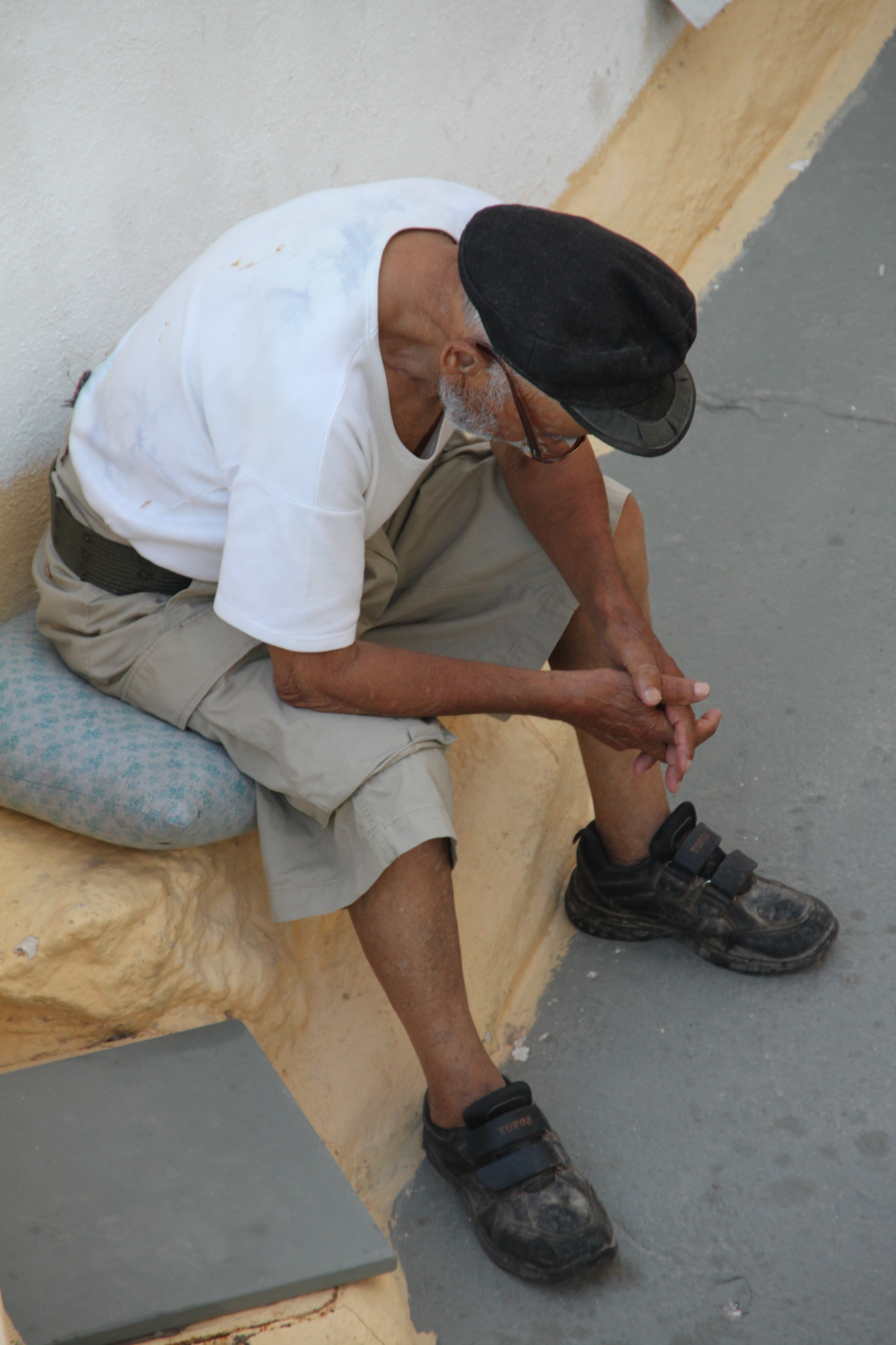 Old man in Oia of Santorini...